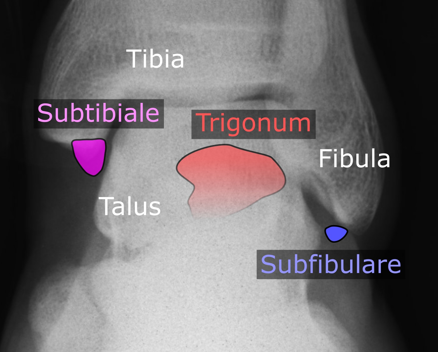 X-ray of the left ankle by anteroposterior projection, with areas representing where common accessory bones would be, colored by their prevalences, and with representative shapes.